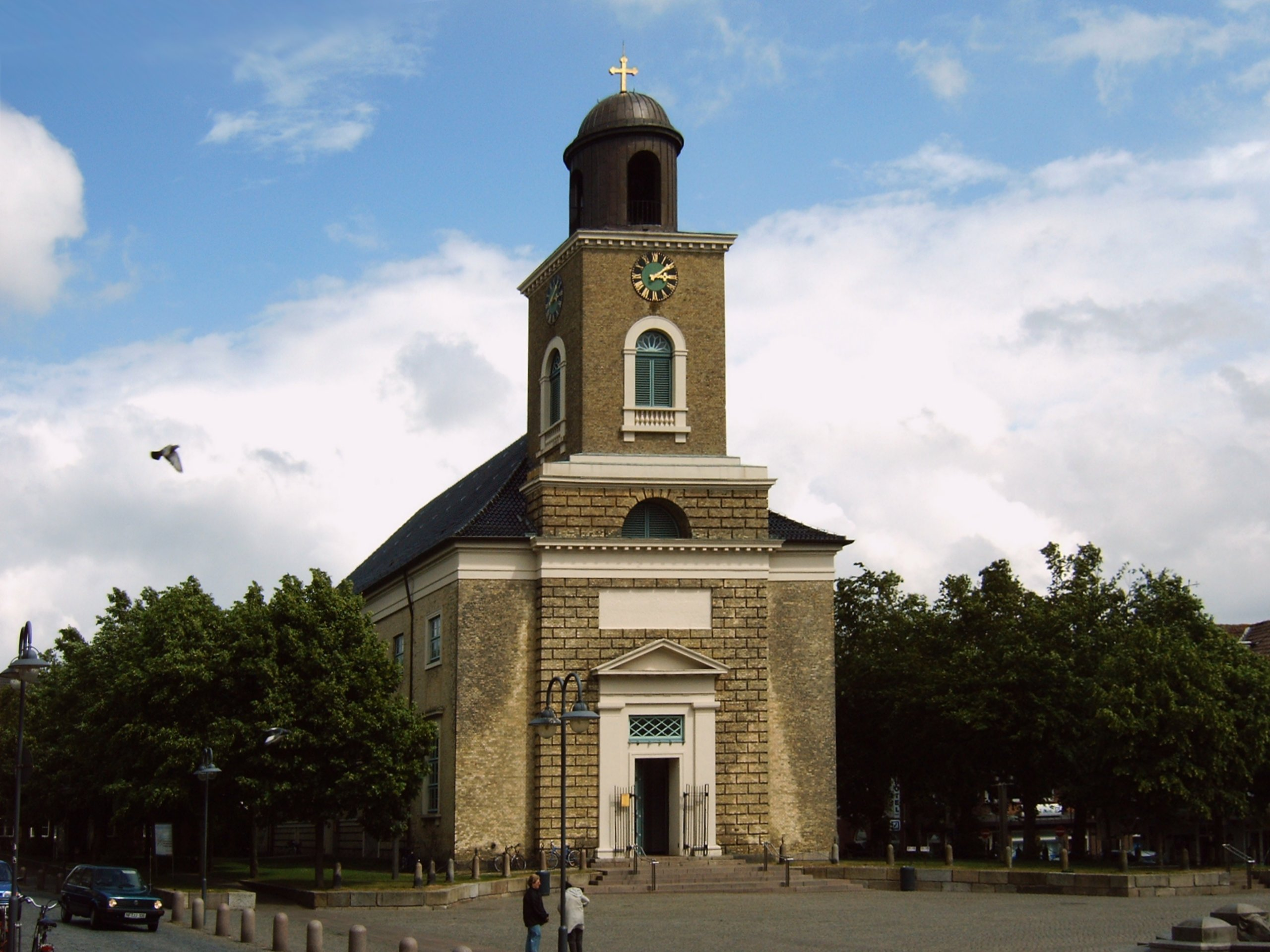 Marienkirche (Church St. Mary) and areaway in Husum